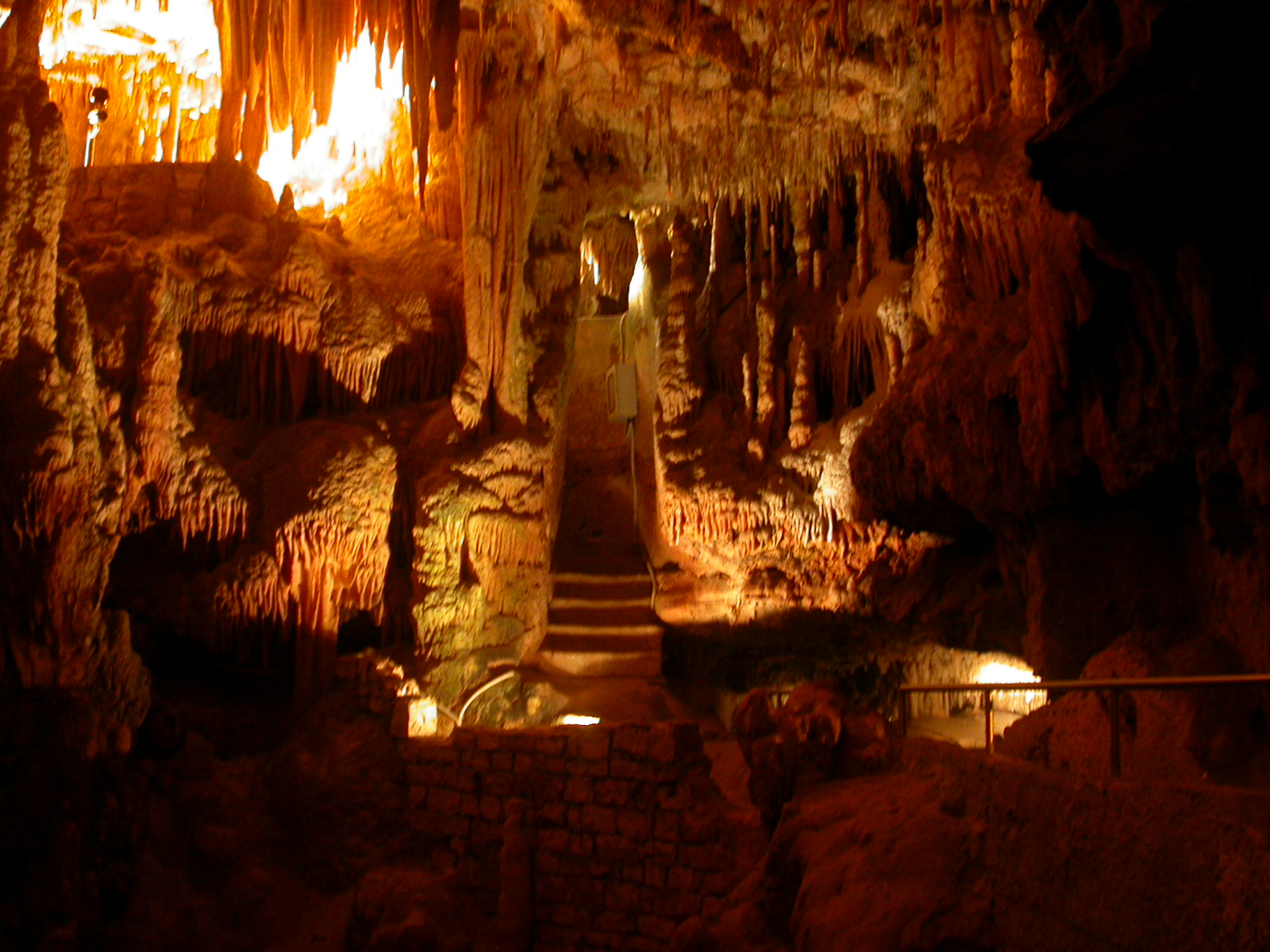 The Grottoes of Castellana in the italian region of Puglia.